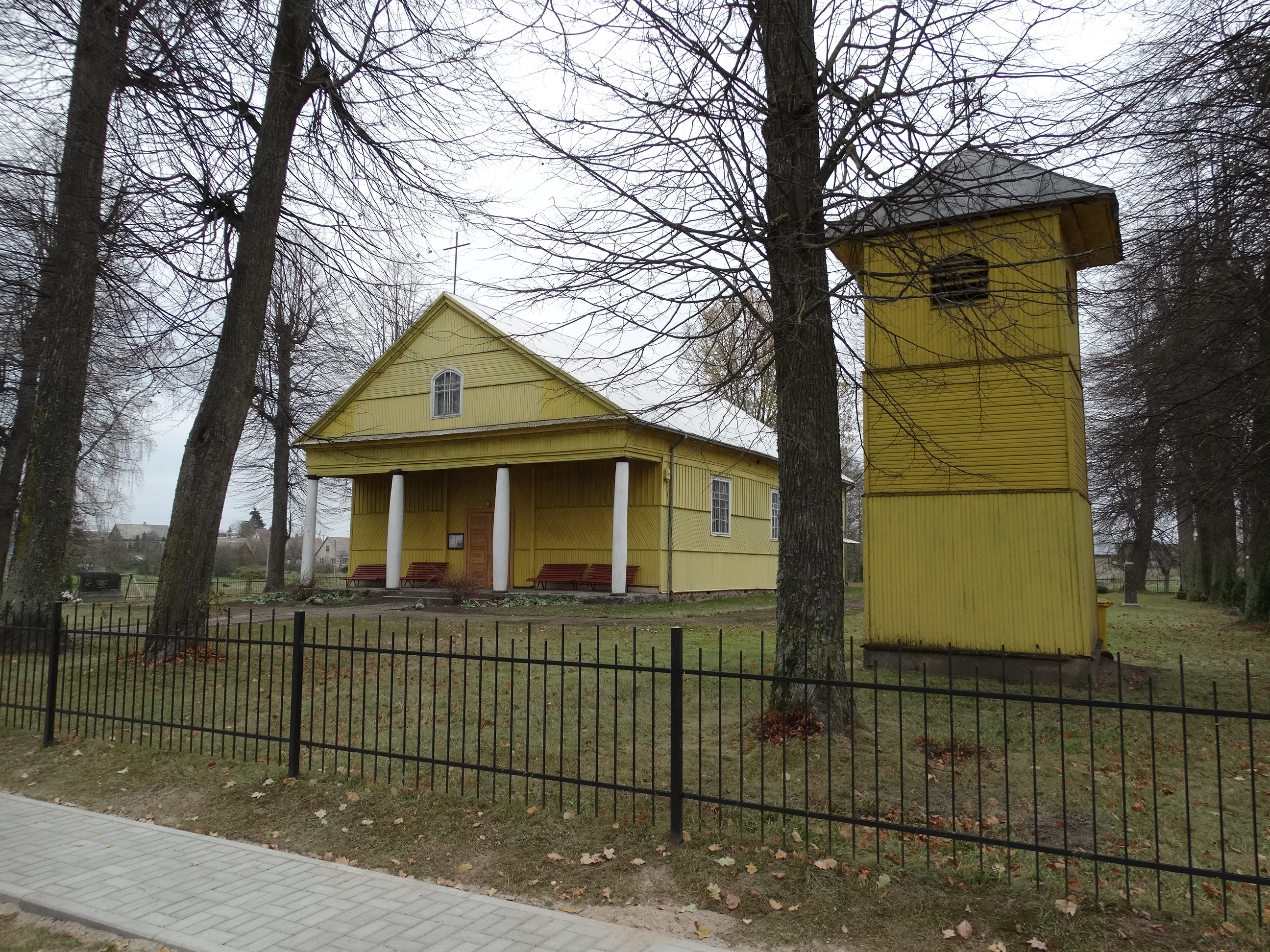 Roman Catholic Church, Palomenė, Kaišiadorys district, Lithuania